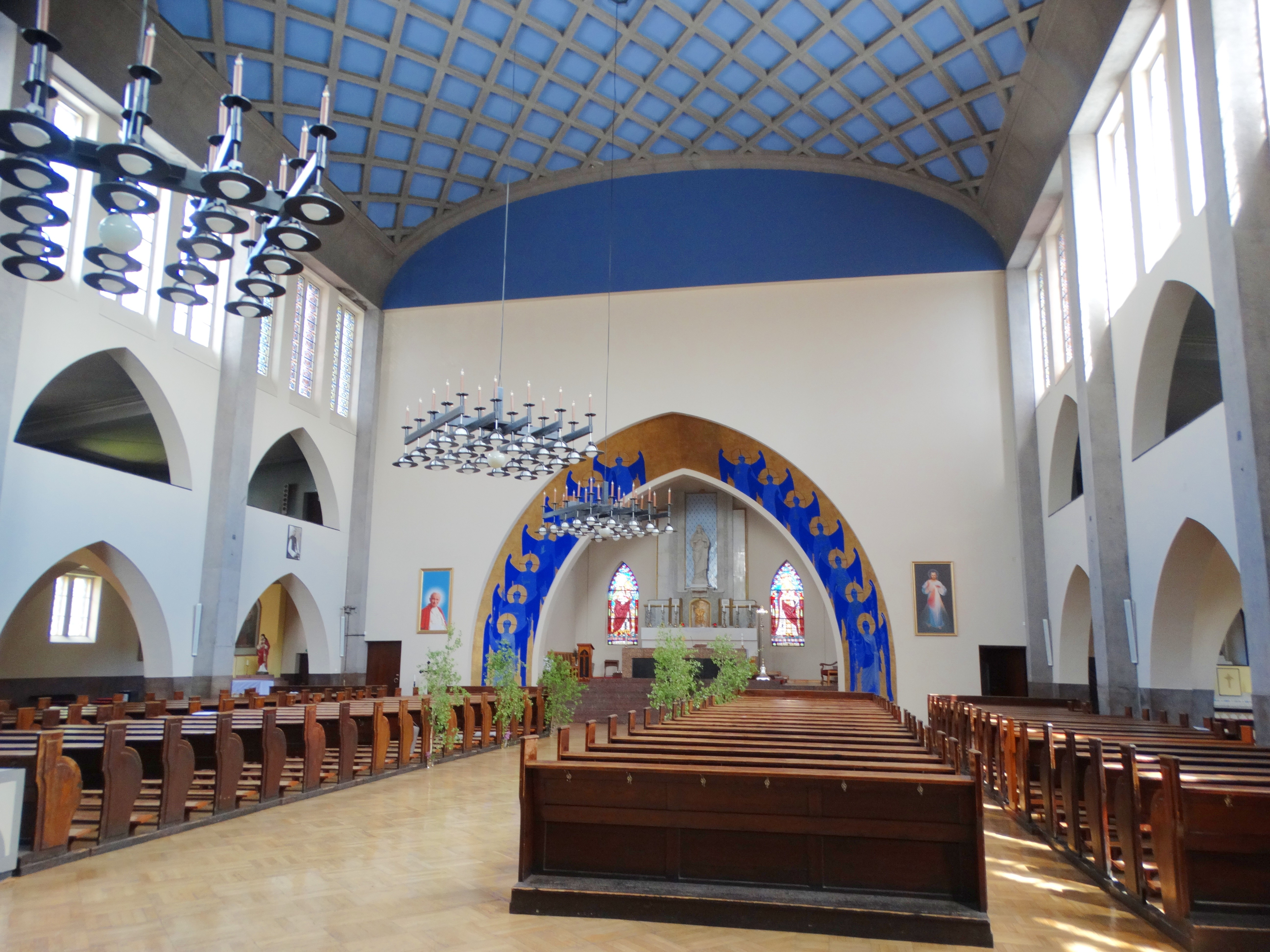 Interior, Catholic Church in Šančiai, Kaunas, Lithuania